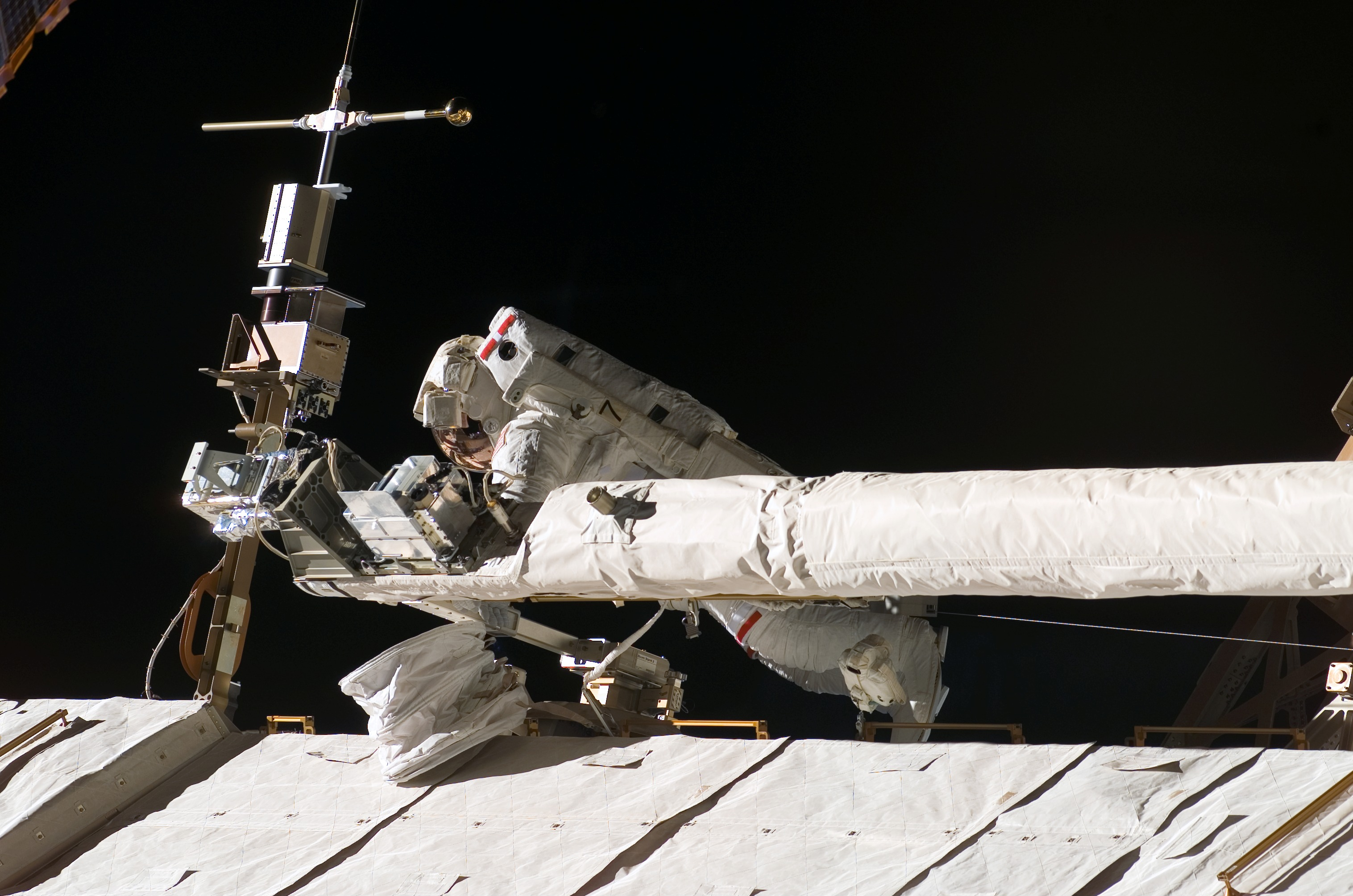 Astronaut Mike Foreman, STS-123 mission specialist, helps to tie down the Orbiter Boom Sensor System on the International Space Station's S1 truss during EVA 5 on March 22. The structure at the end of the boom is a transmission device for laser imagery from the laser devices used for scanning the thermal protection system.